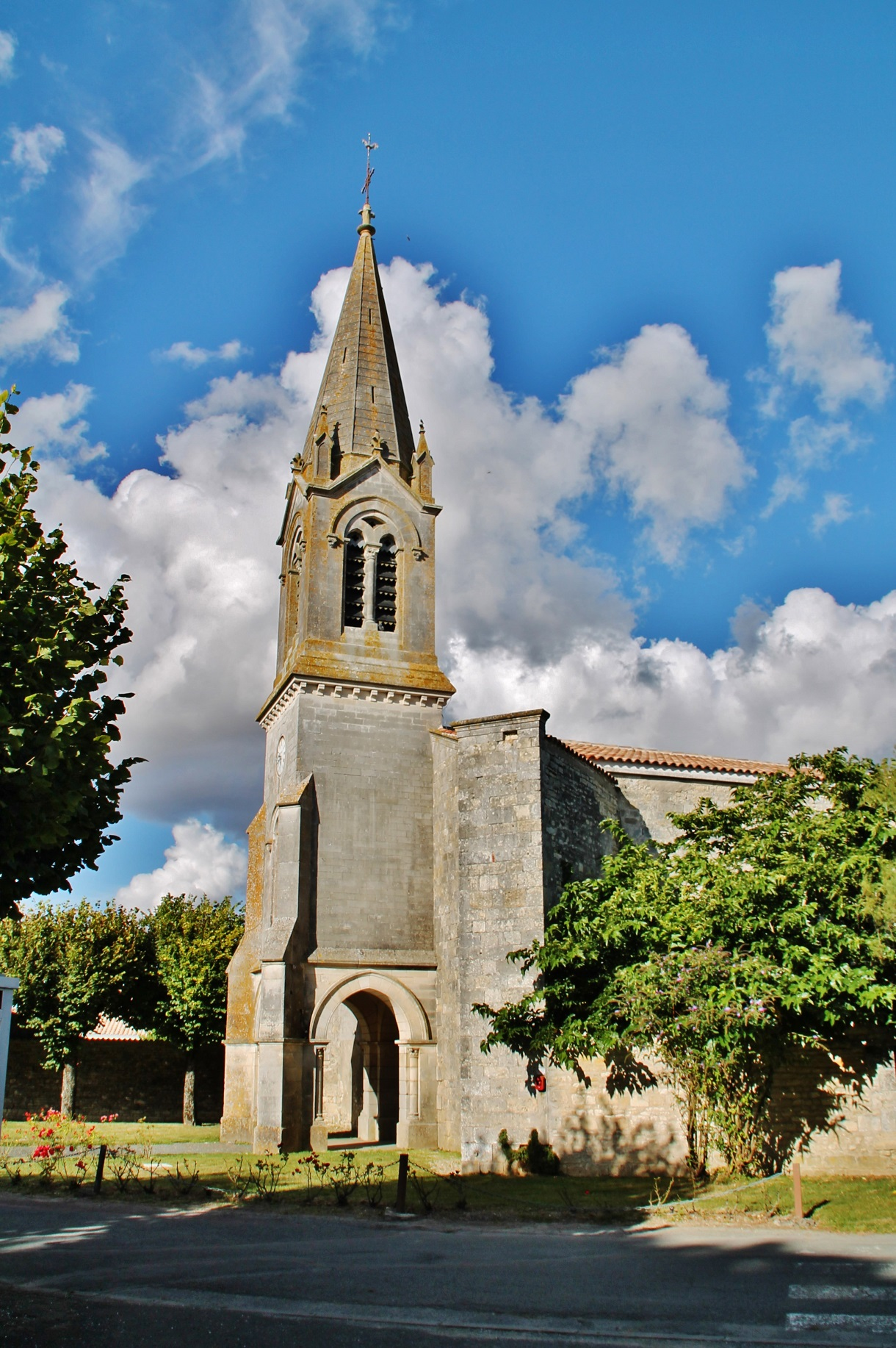 église Ste Catherine